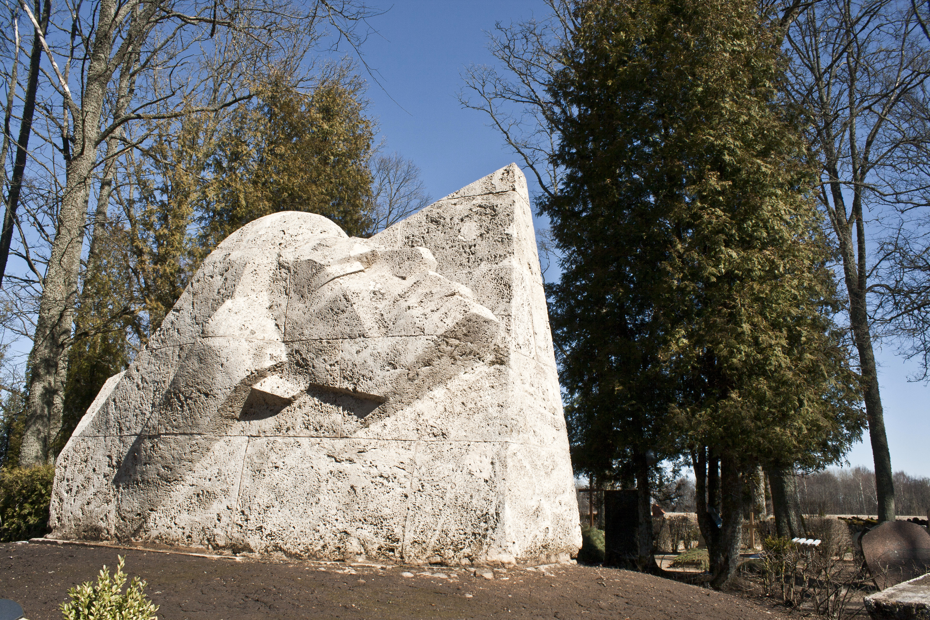 Cemetery memorial to latvian poet E. Veidenbaums on Liepa cemetery, near Eduards Veidenbaums museum